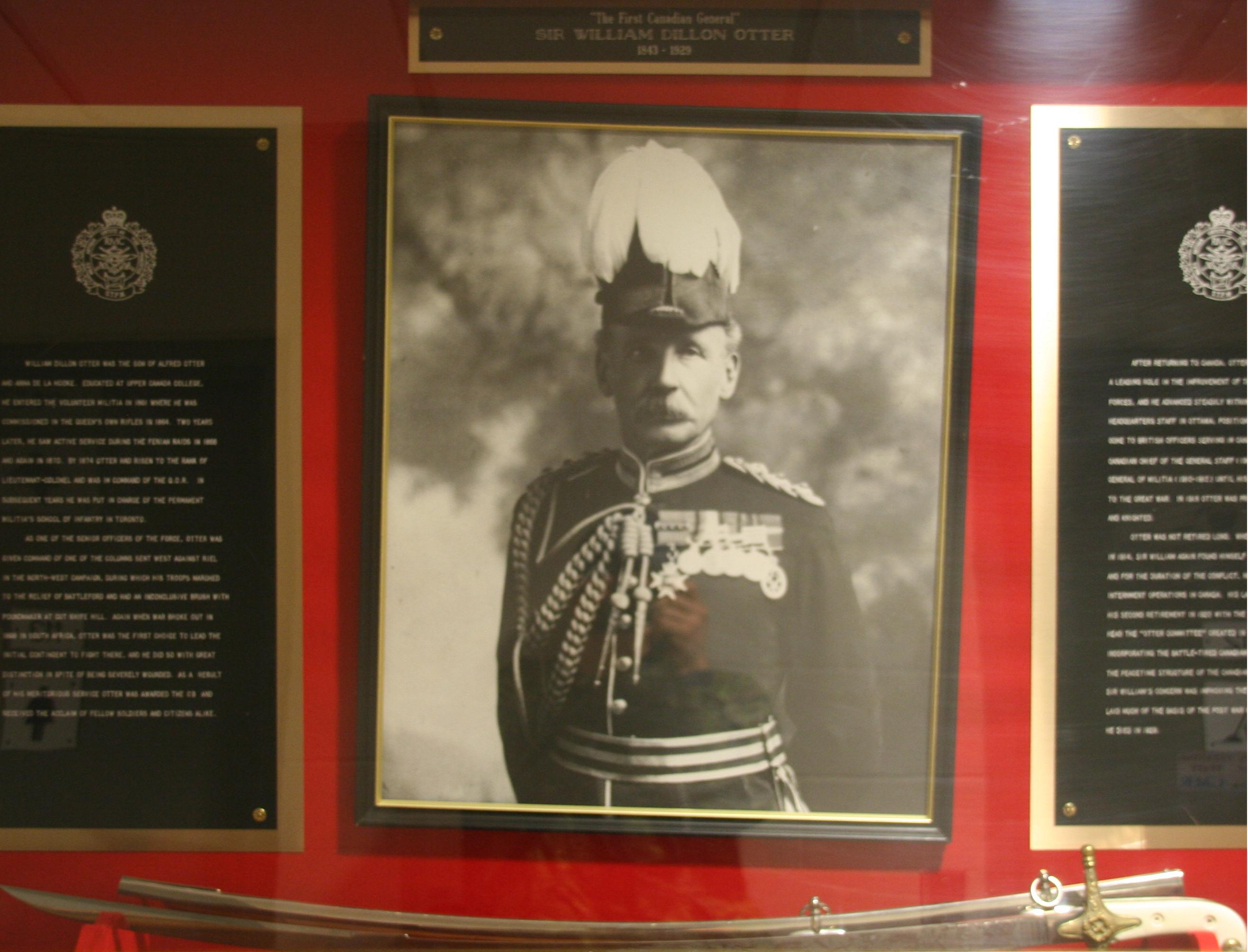 William Dillon Otter sword at Royal Military College of Canada. Although he was not a cadet, he is honoured by the Otter Squadron of university training program non commissioned members